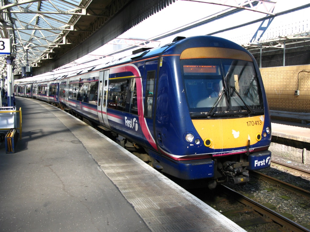 First ScotRail's 170413 stands in the bay paltform at Aberdeen station, shortly before starting its journey south.